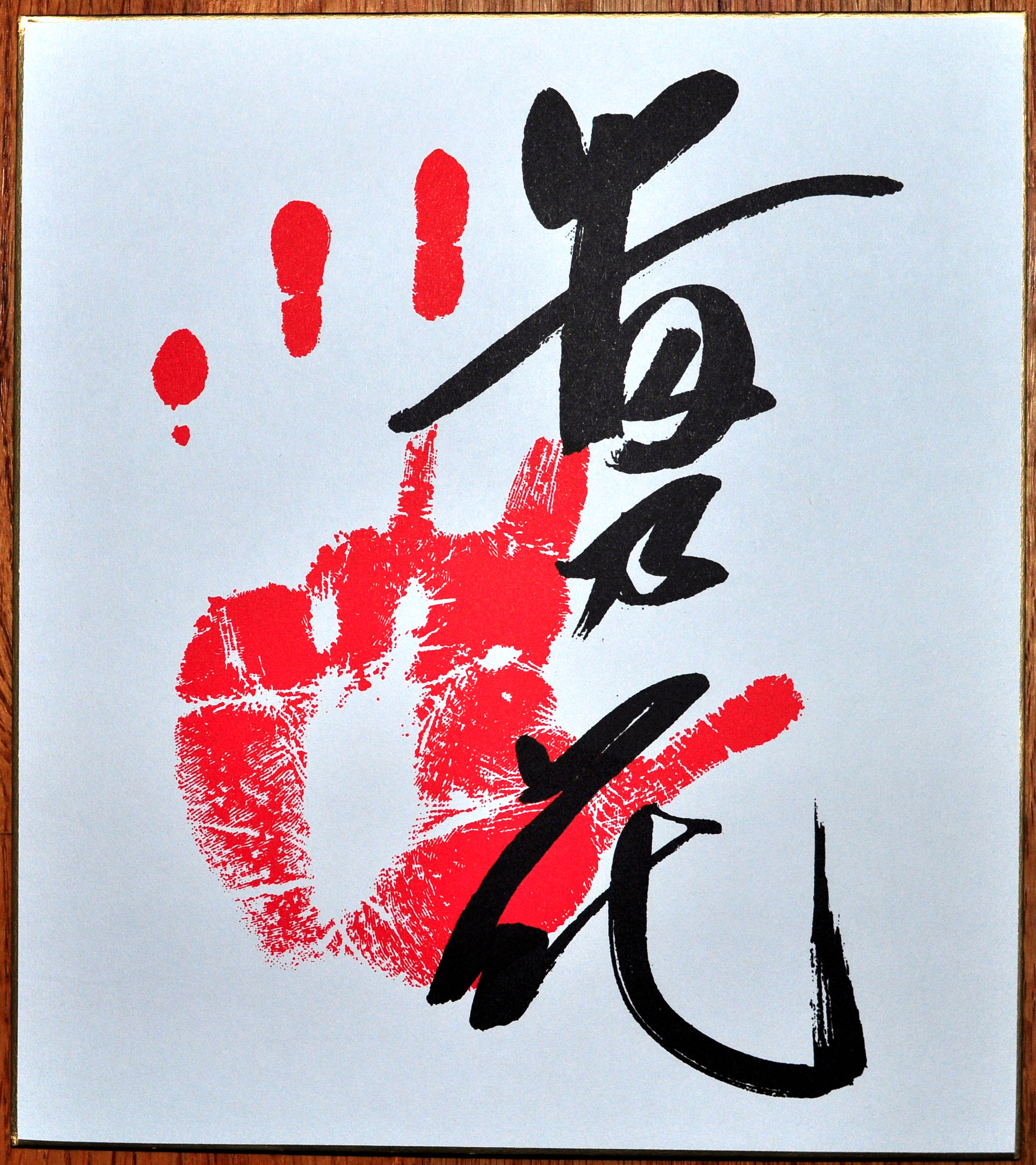 Tegata (hand print autograph) of Takanohana (II) Kōji 貴乃花 光司, 65th yokuzuna, highest ranked sumo wrestler. At Aichi Prefecture Auditorim